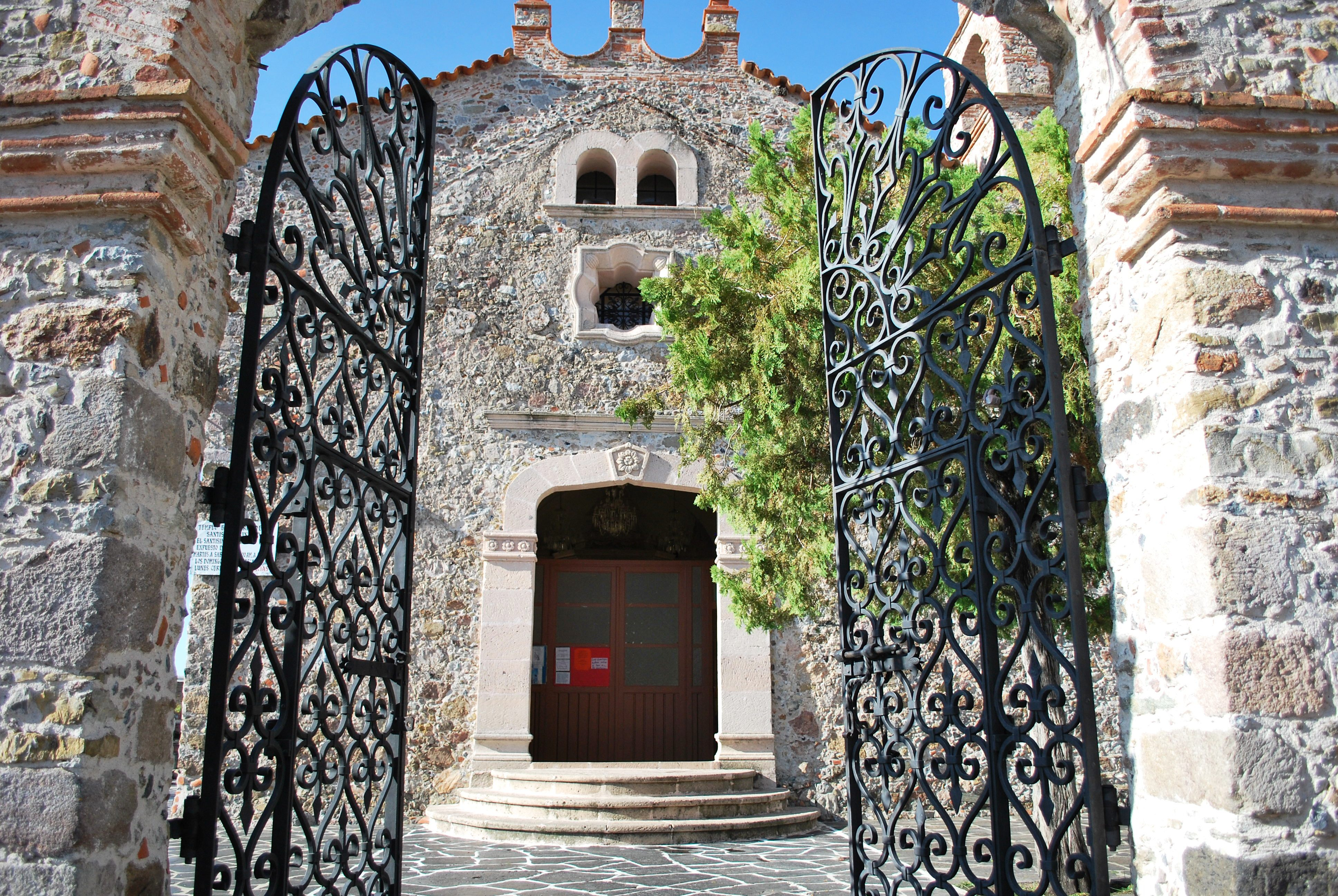 Gate to the atrium of the La Santisima Church in Taxco de Alarcon, Guerrero, Mexico